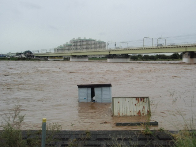 rising Tama River with Typhoon Lan 2017